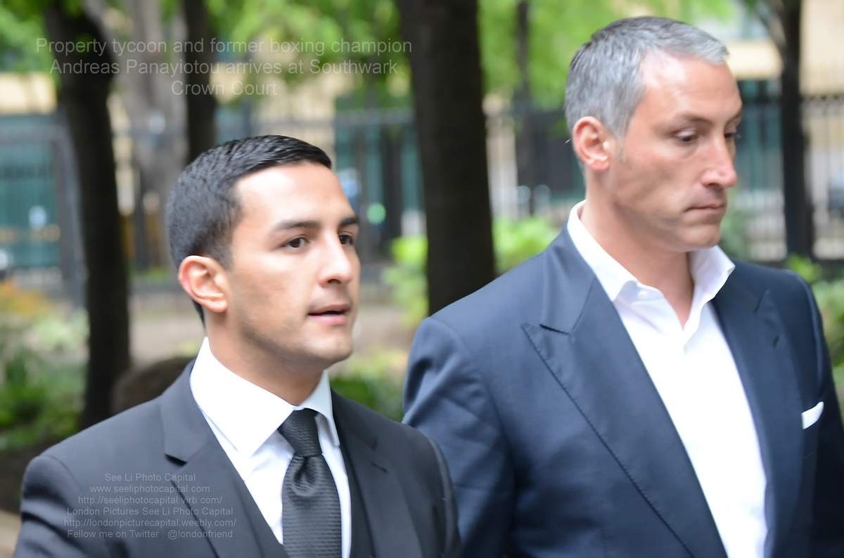 Property tycoon and former boxing champion Andreas Panayiotou arrives at Southwark Crown Court Mdeia : See Li Photo Capital London Pictures See Li Photo Capital Fellow me on Twitter : @londonfriend